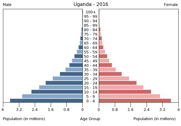 The population pyramid of Uganda illustrates the age and sex structure of population and may provide insights about political and social stability, as well as economic development. The population is distributed along the horizontal axis, with males shown on the left and females on the right. The male and female populations are broken down into 5-year age groups represented as horizontal bars along the vertical axis, with the youngest age groups at the bottom and the oldest at the top. The shape of the population pyramid gradually evolves over time based on fertility, mortality, and international migration trends.